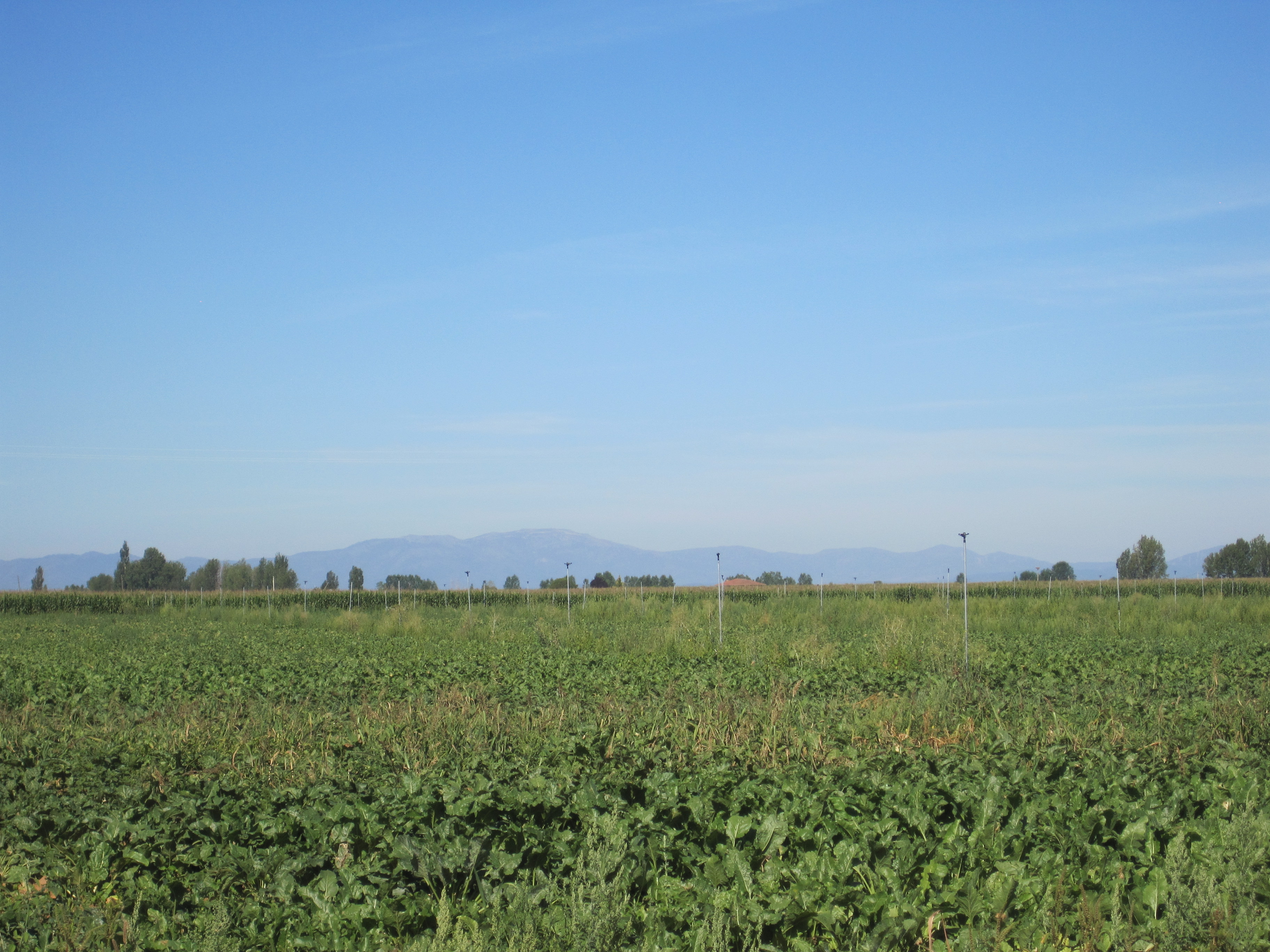 Imagen tomada en Bercianos del Páramo (León).